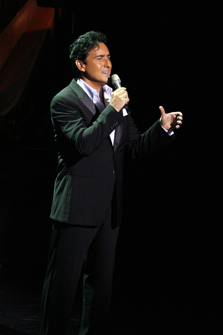 Il Divo Orchestra in Concert At Sydney Opera House